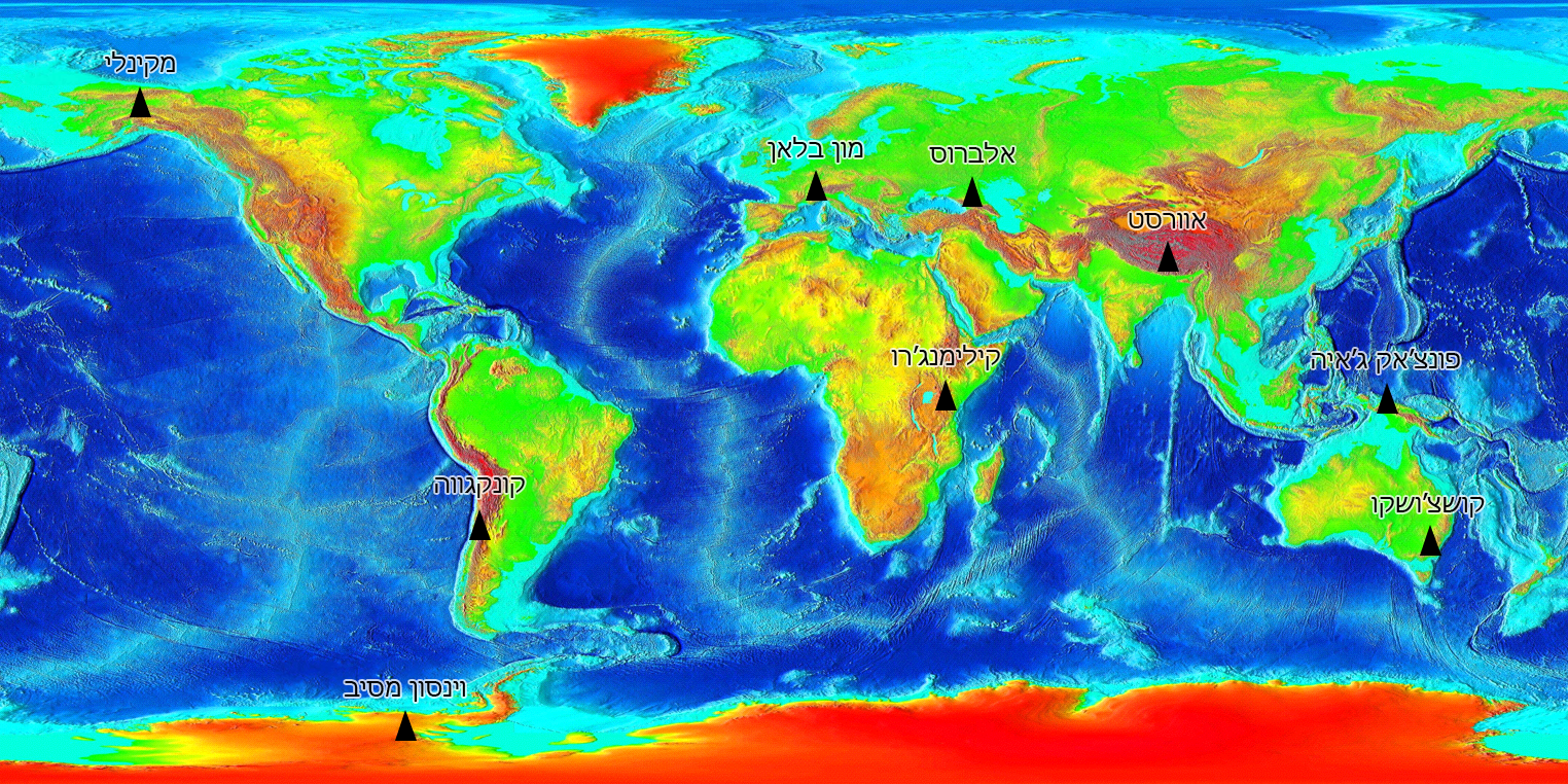 Hebrew version of Image:Seven+Summits+Elevation+World+Map.png, showing The Seven Summits on an Elevation World Map.